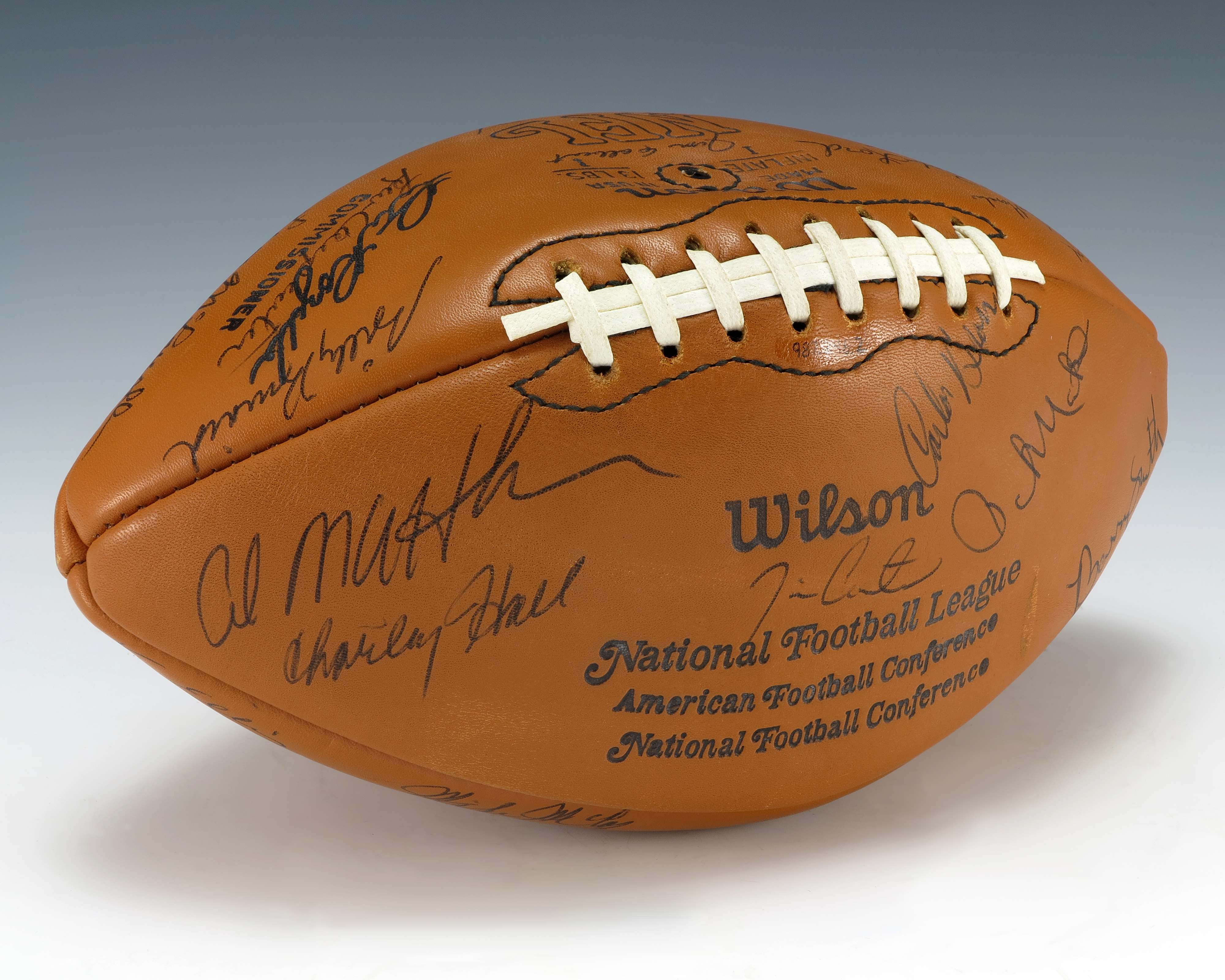 An NFL, Brown Leather Wilson football, with white laces, and signed by the 1975 Green Bay Packers.